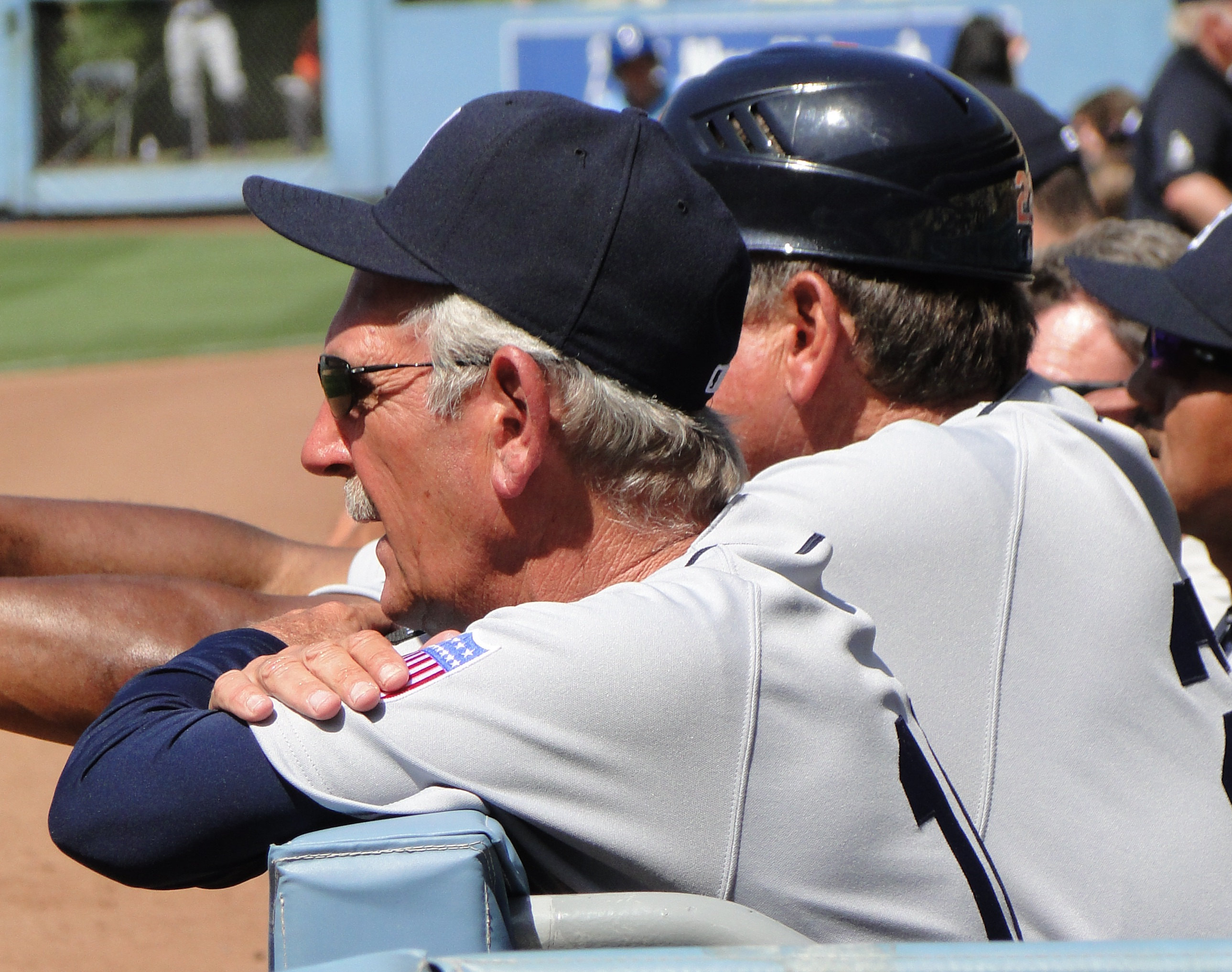 Jim Leyland at Dodger Stadium